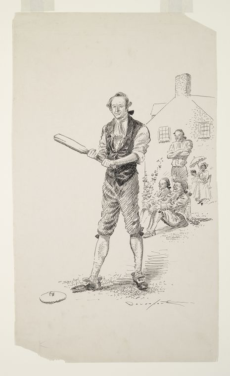 A drawing of members of the New York Knickerbockers baseball team during a practice session.